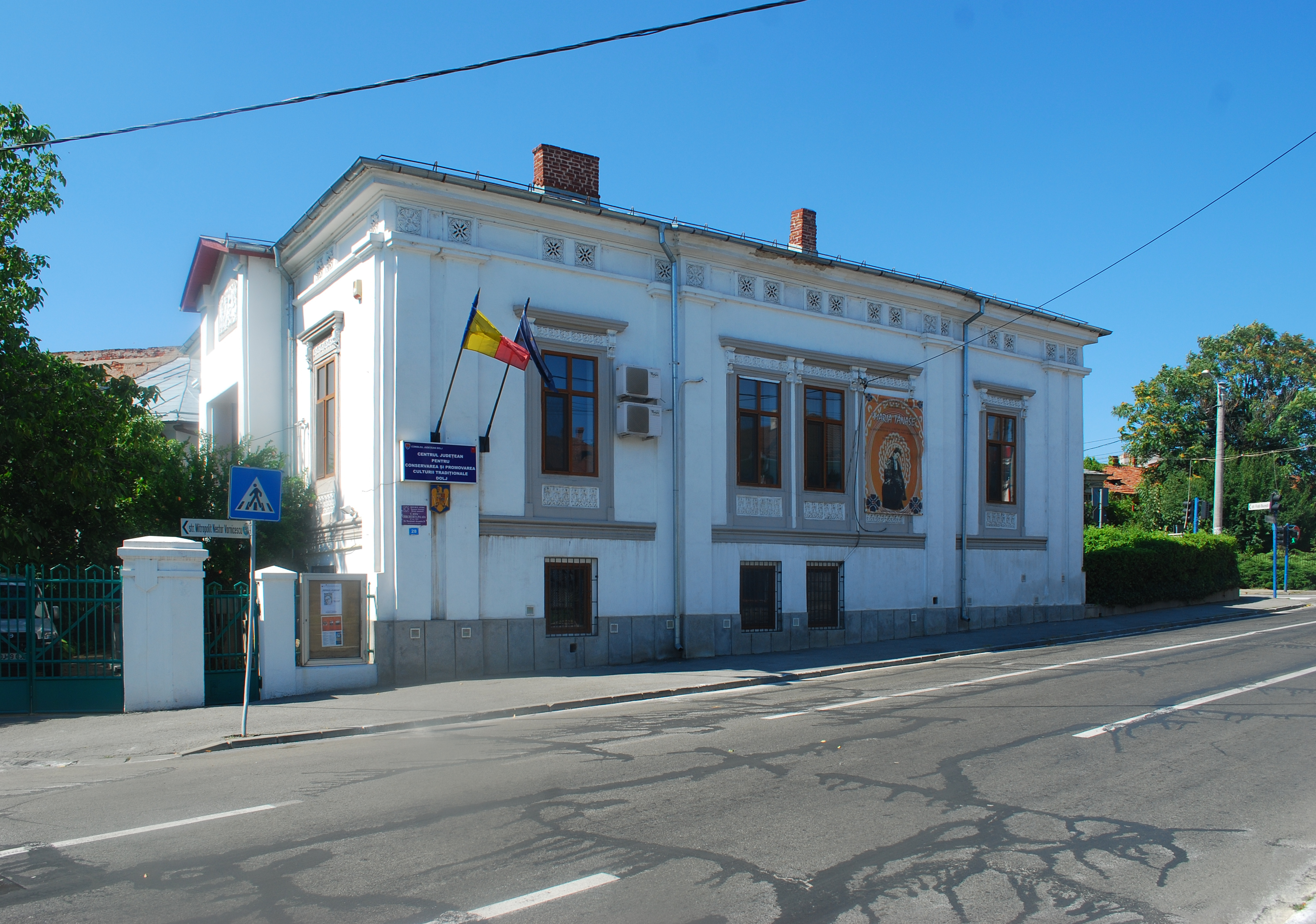 Chirchiubeșa-Palada house, 28 Alexandru Macedonski street, Craiova, Romania